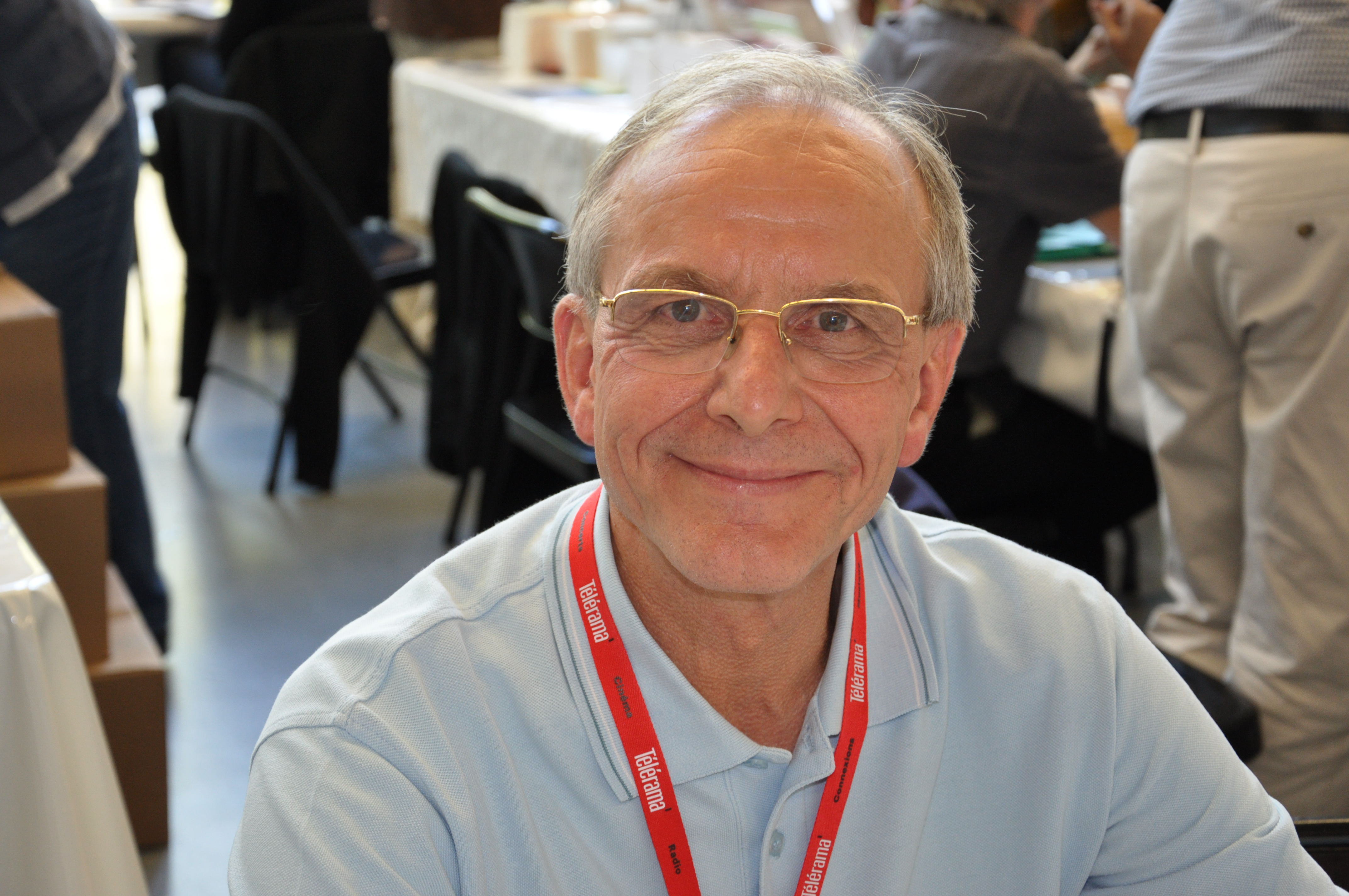 Axel Kahn at the 2012 Mouans-Sartoux Literature Festival.